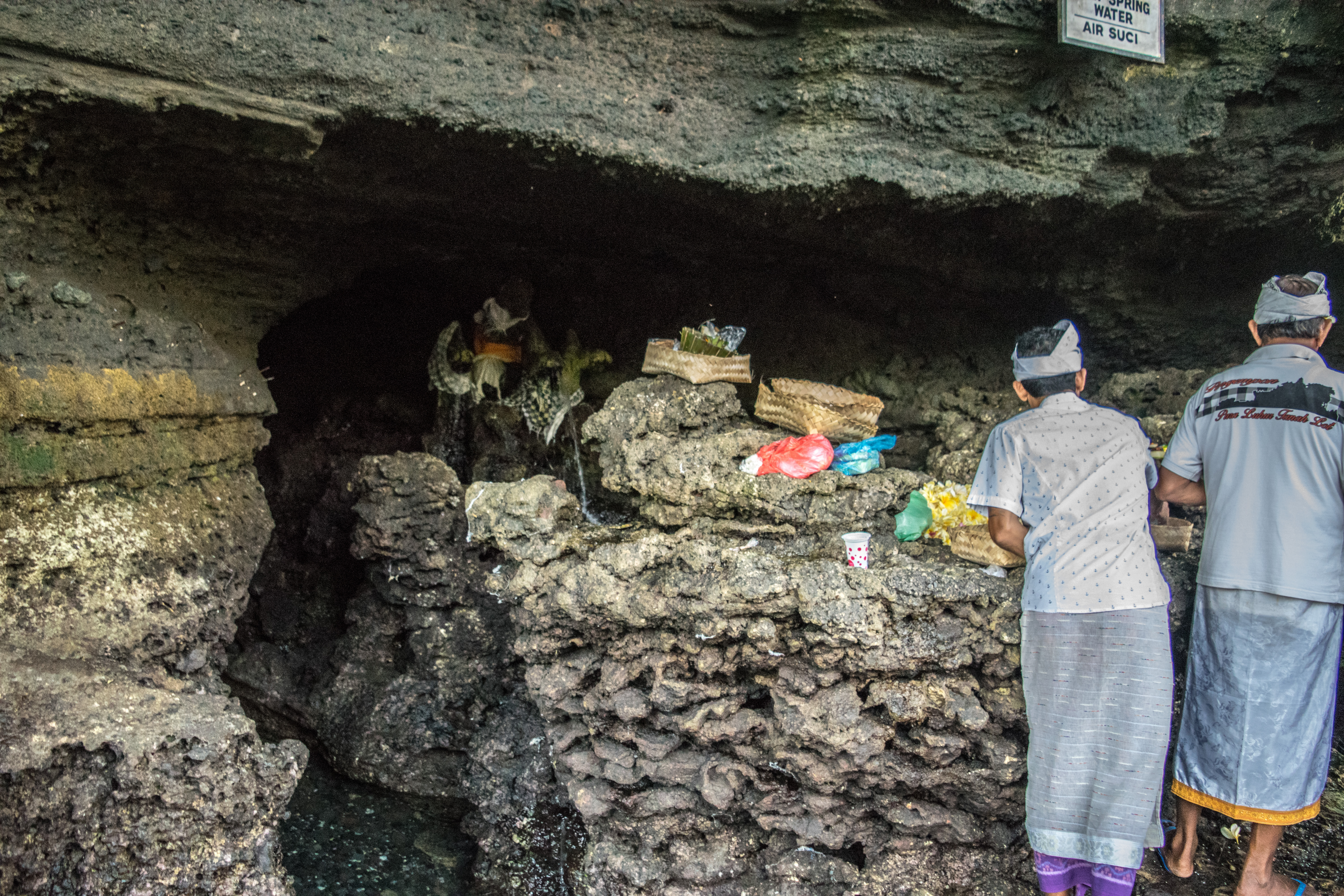 The sacred water at Tanah Lot Kuta